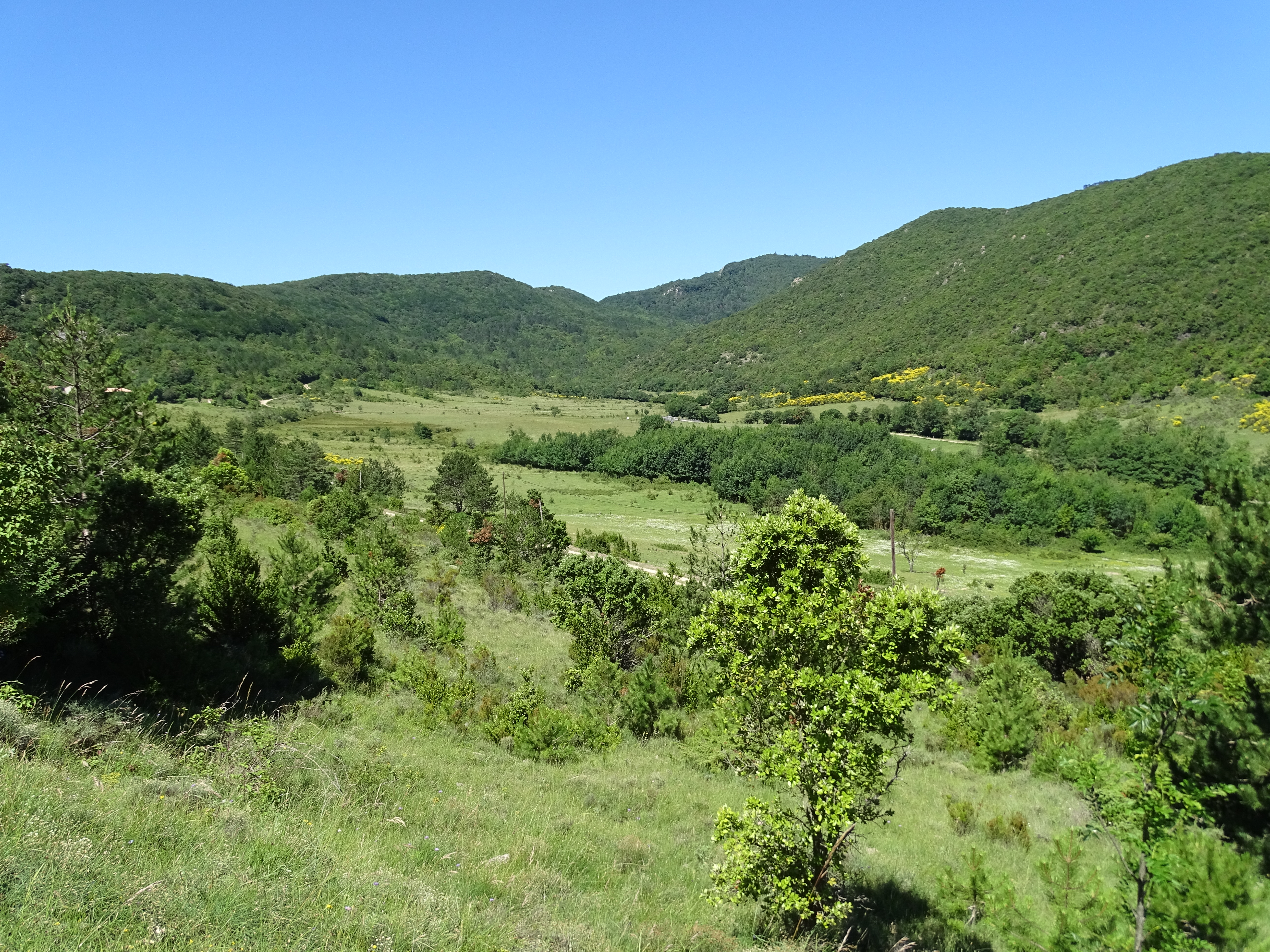 Fields in Massac, Aude, France